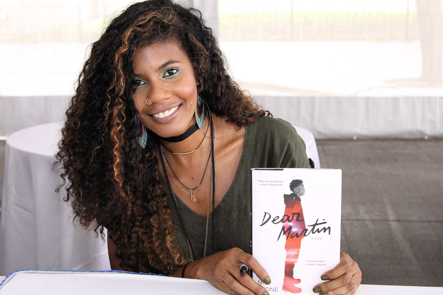 Author Nic Stone at the 2017 Texas Book Festival.